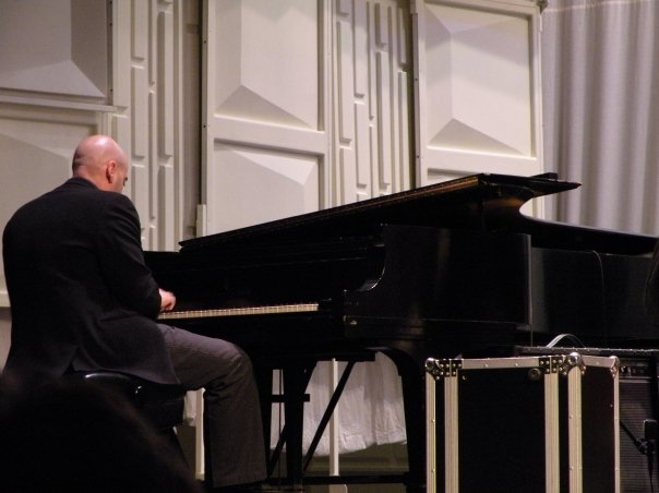 Jazz pianist Ryan Cohan performing at the Community Jazz Showcase hosted by Purdue University Bands at the Long Center in Lafayette, Indiana on January 15, 2009.